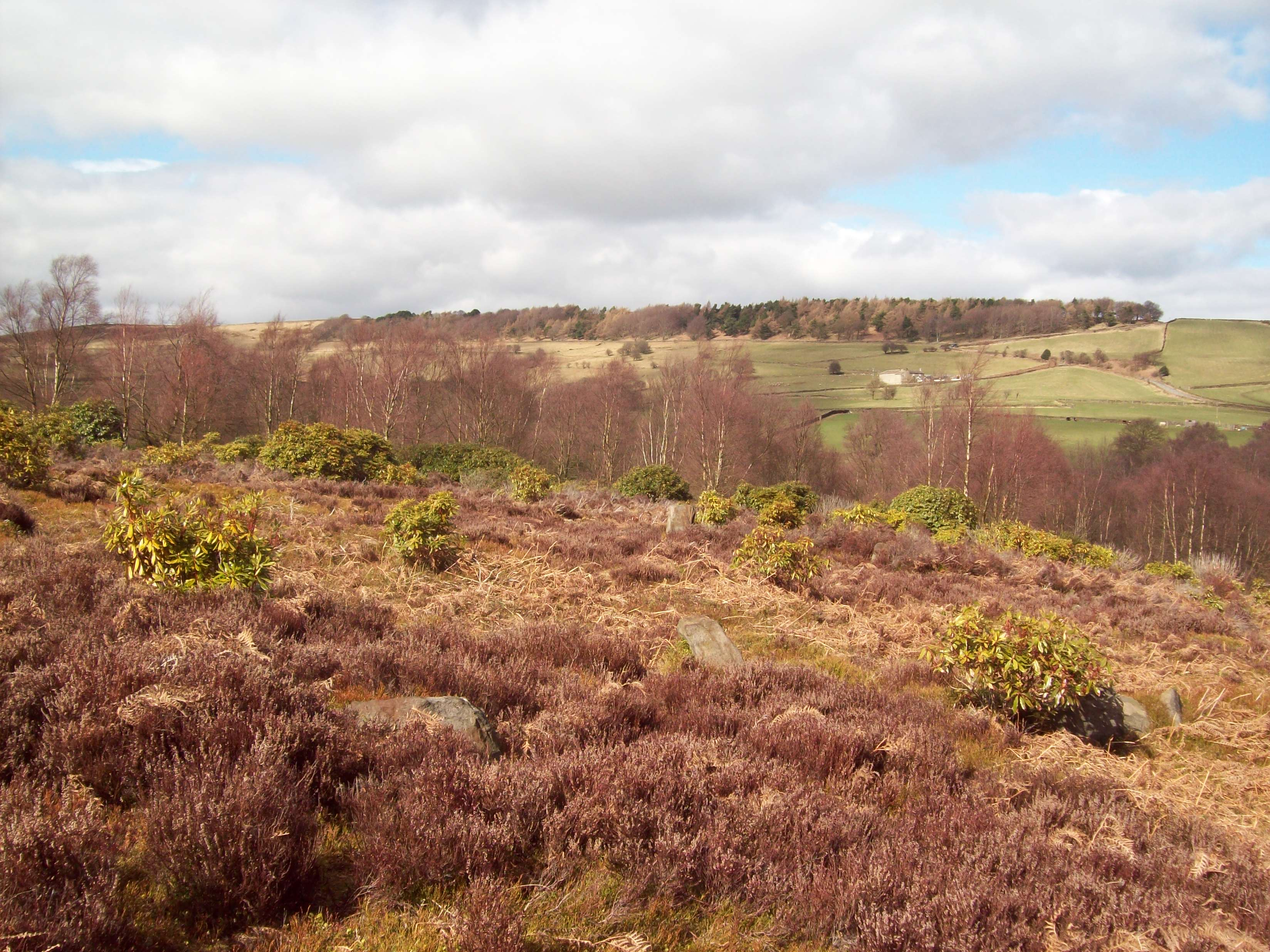 Ewden Beck Stone Circle This circle stands on a flat shelf of land above the steep valley of Ewden Beck and is situated several miles to the north of the main network of Peak District circles. However, this is a site of some significance; a long earthwork is situated to the south and there are also a number of burial cairns within the area. The circle itself is badly disturbed although the largest stones are around 75cm in height.